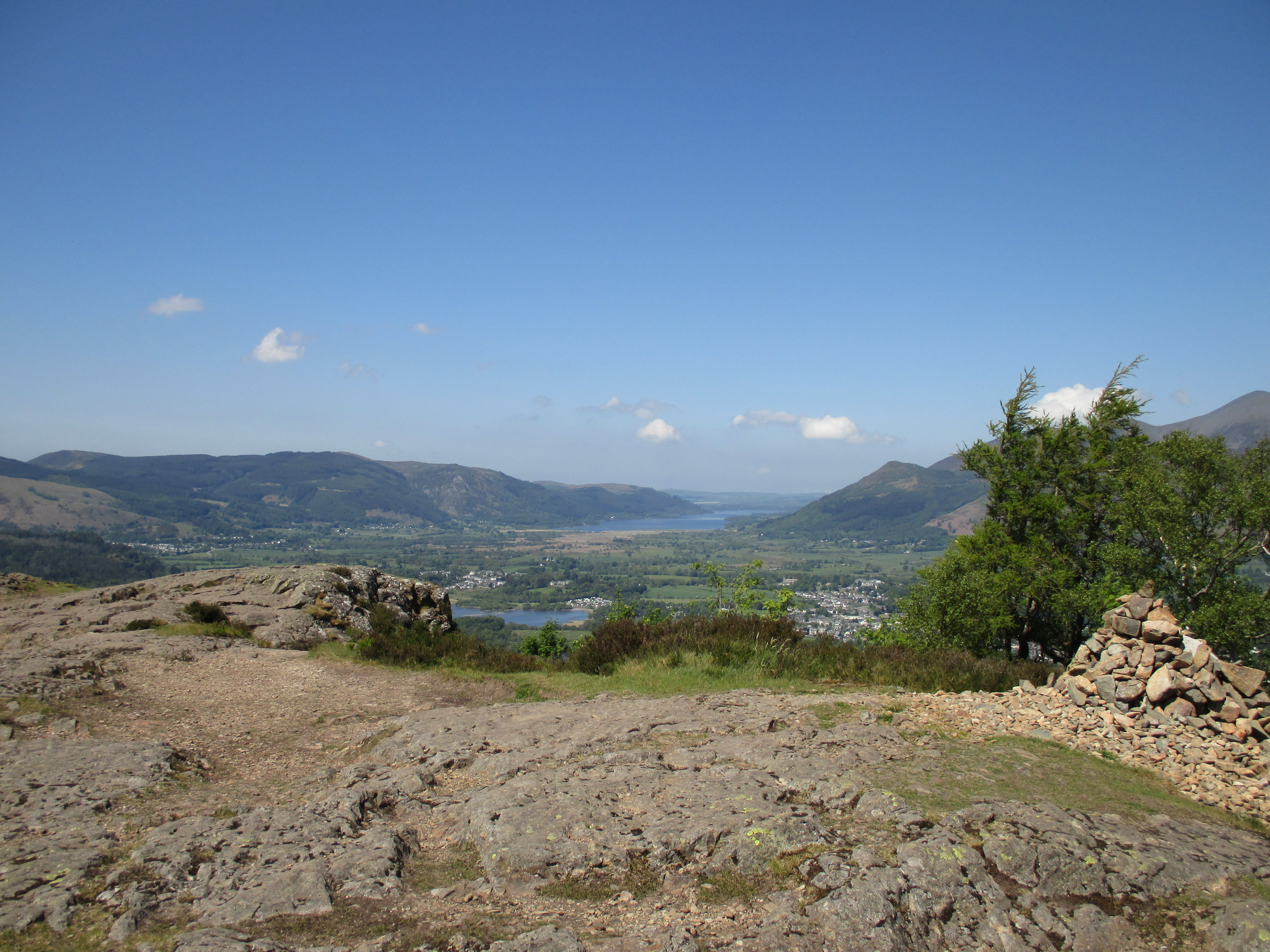 The summit of Walla Crag, including the summit cairn. In the distance are the northernmost tip of Derwentwater, Bassenthwaite Lake, and part of Keswick